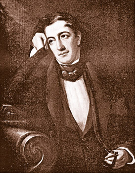 Lewis C. Levin in his youth, from an 1834 portrait by Rembrandt Peale.